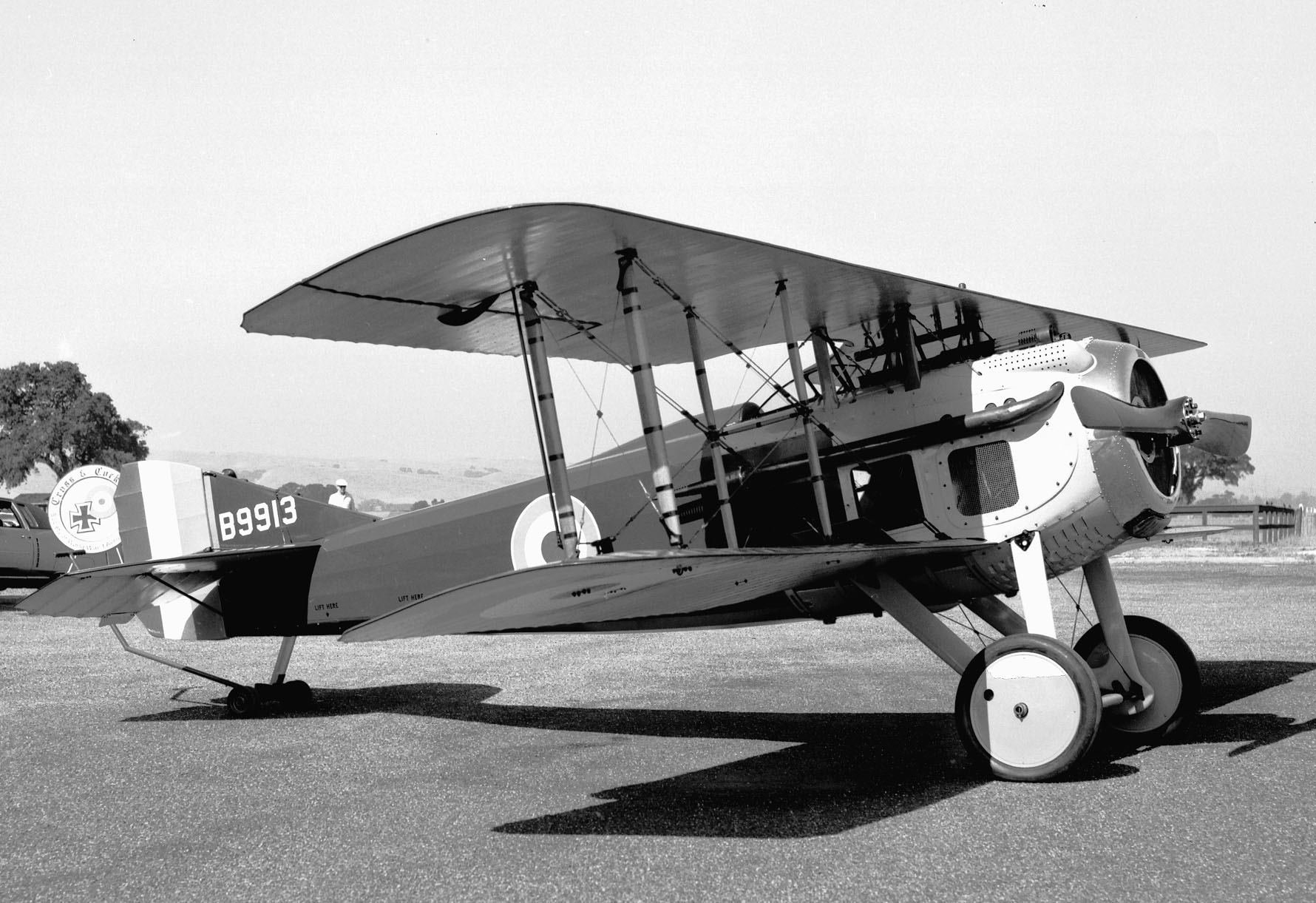 Livermore, CA, 1974. I find the short nosed SPAD hard to photograph and don't like the side view too much. This 1/4 front seems much better to me. But perhaps it is all in the eye of the beholder.